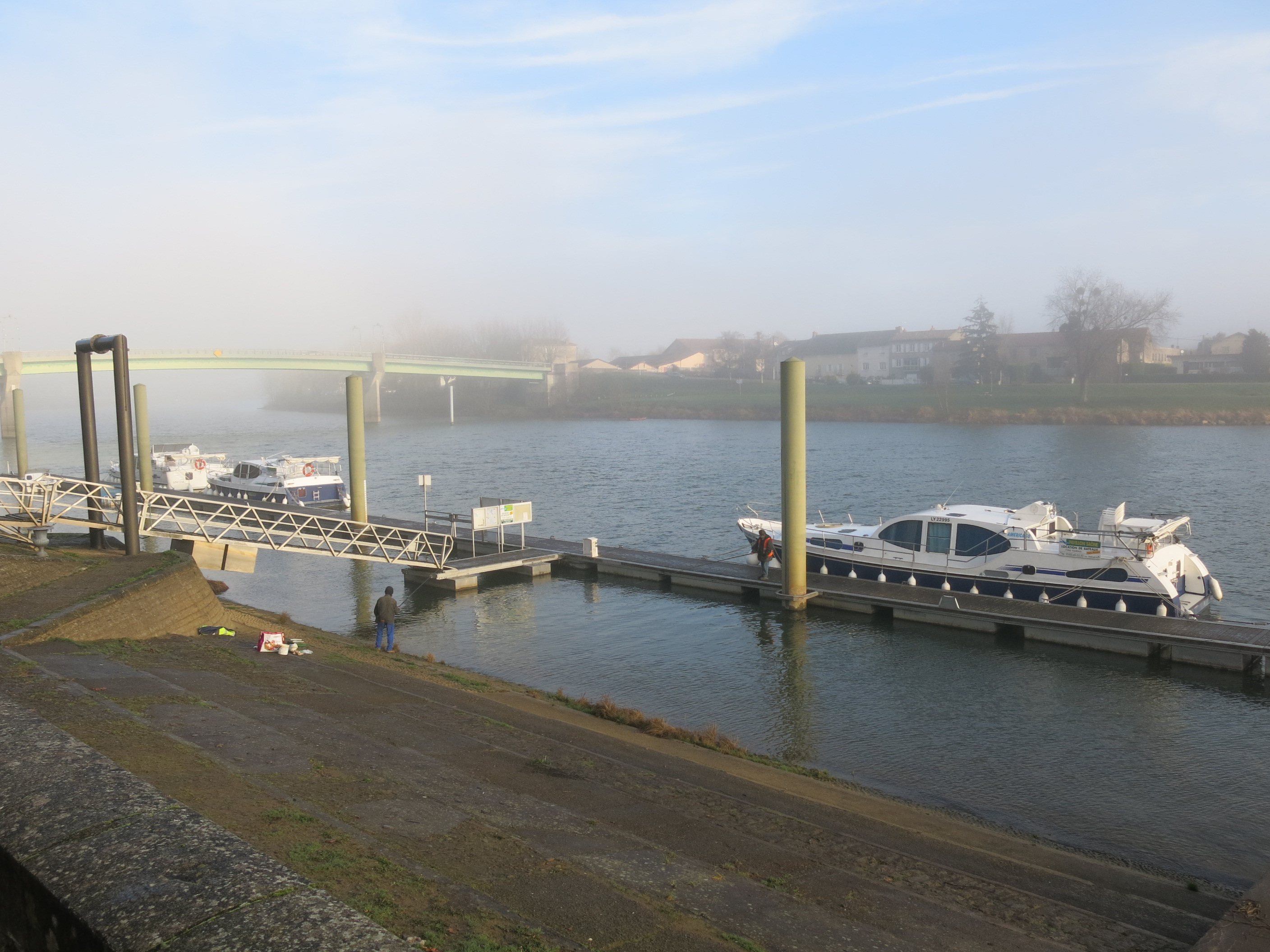 Banks of Saône River in Tournus during a day with fog (Saône-et-Loire, France).